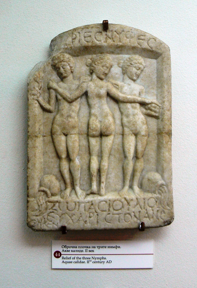 Sacral tile with the three Nymphs. Burgas Archeology Meseum